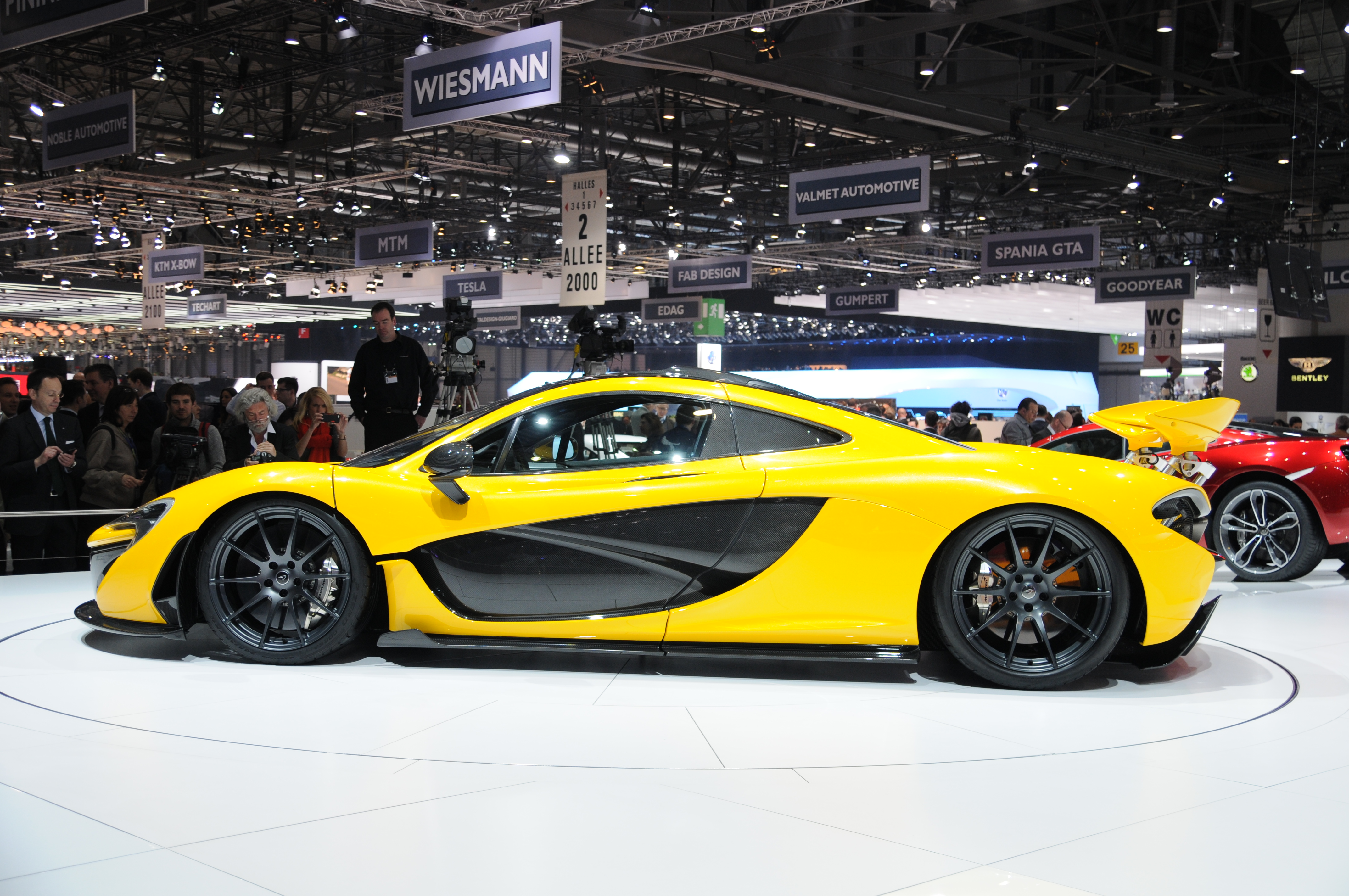 Geneva Motor Show 2013 (photos taken on the first press day)